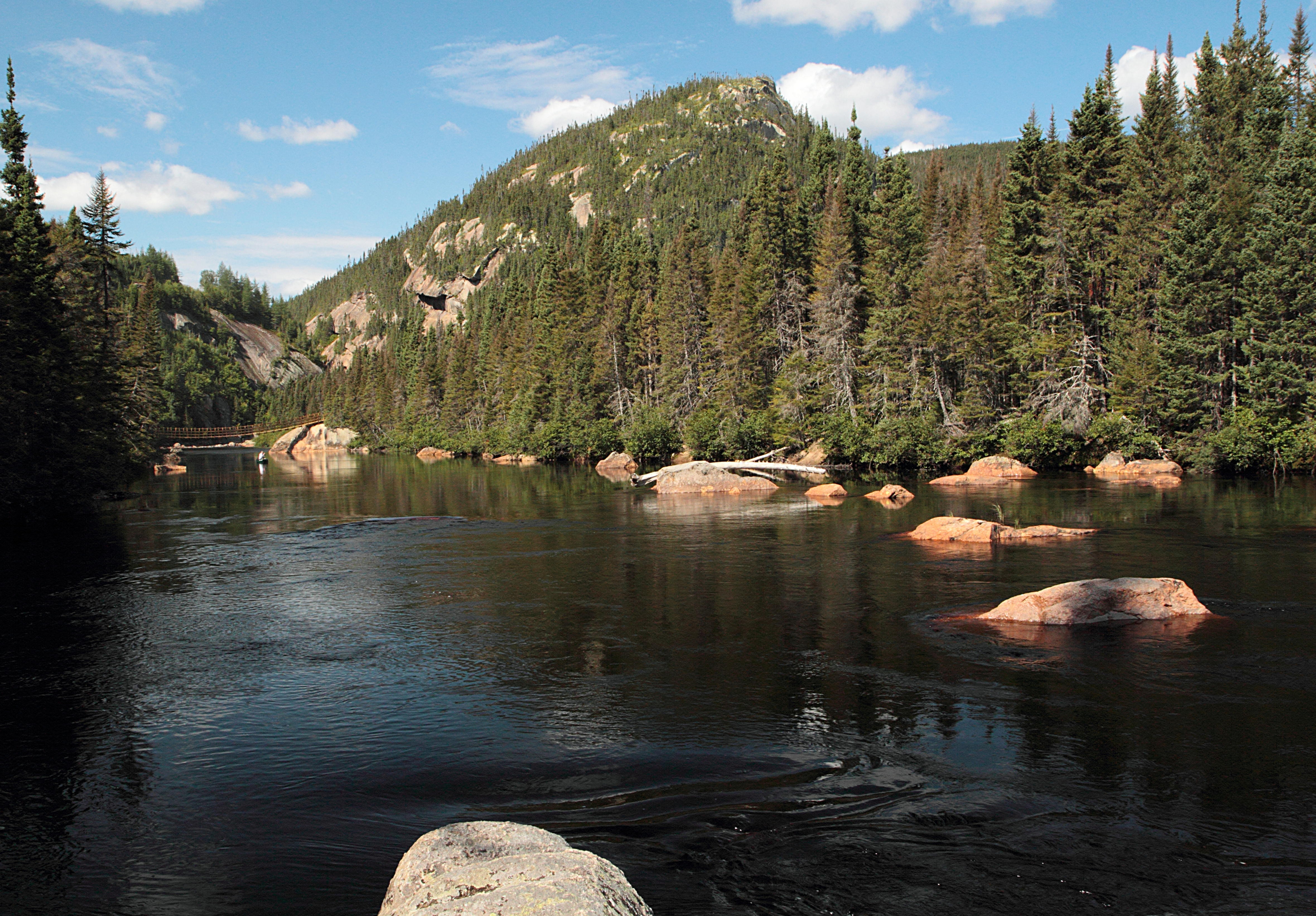 MacDonald river, Port-Cartier-Sept-Îles Wildlife Preserve, Quebec, Canada